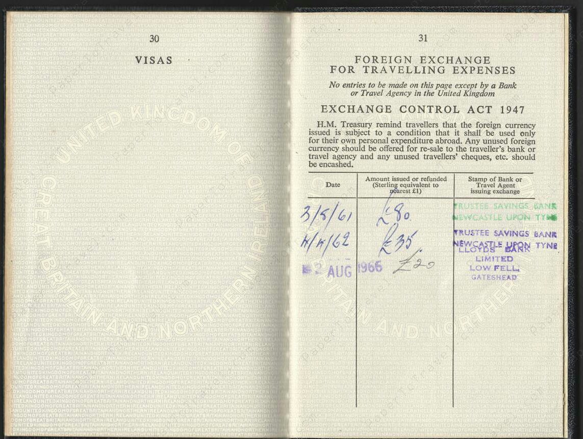 British Passport 1961, Foreign Exchange for Travelling Expenses page with 'Exchange Control Act 1947' notation